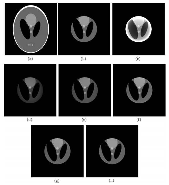 (a) Shepp-Logan head phantom. (b) The crop of the phantom. (c) The reconstruction without extrapolation. (d) The reconstruction with constant extrapolation. (e) The reconstruction with quadratic extrapolation. (f) the reconstruction with mixed extrapolation; here L = 256, m = 1, α = 0.73. (g) the reconstruction with mixed extrapolation; here L = 256, m = 2, α = 0.5. (h) the crop of the reconstruction with FBP method using non-truncated projections, which was utilized for comparison.